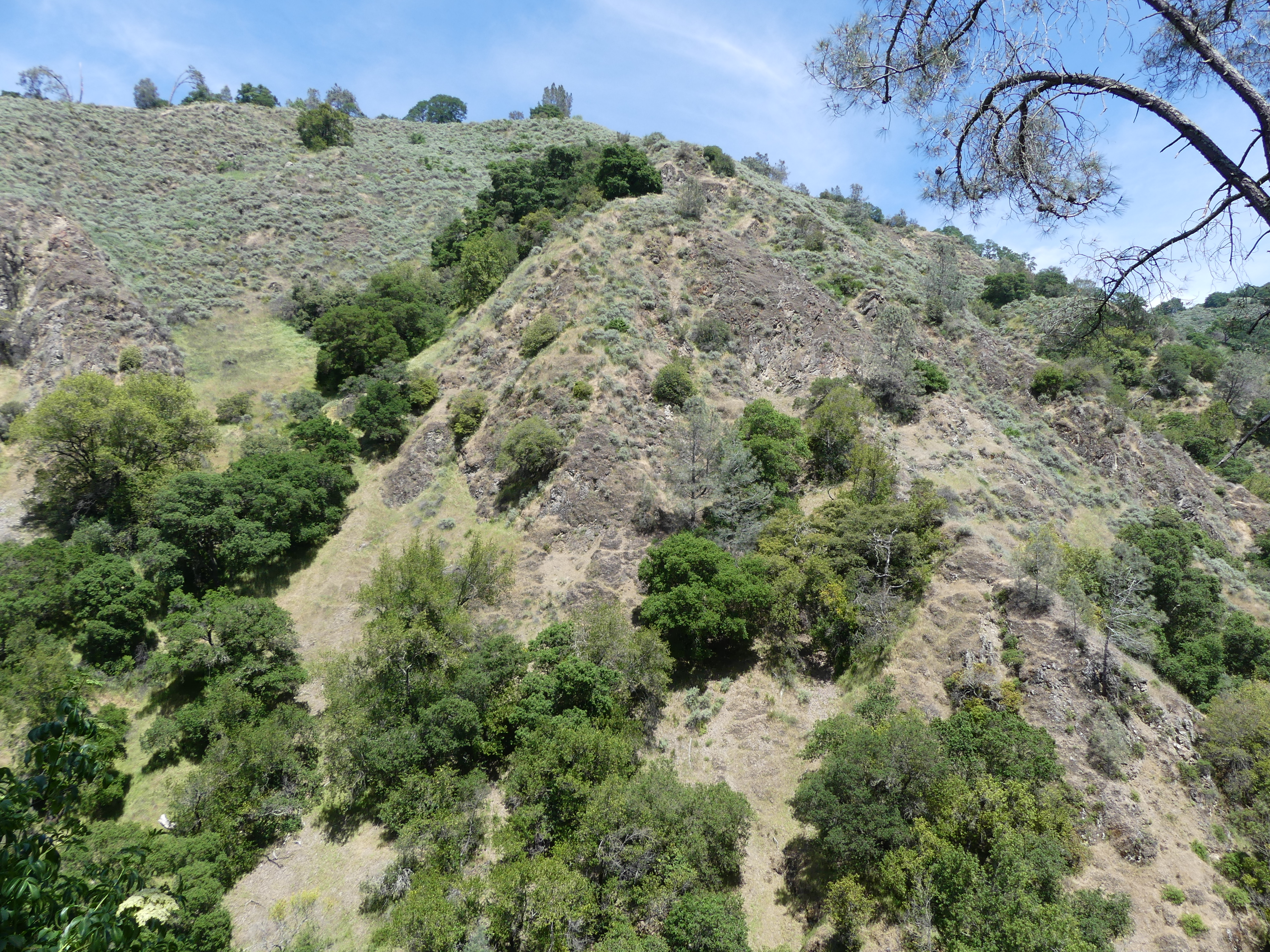 Multiple plant communities inhabit this hillside at Alum Rock Park. Foothill pine (Pinus sabiniana), Coast live oak (Quercus agrifolia), and Sagebrush (Artemisia californica) are visible.